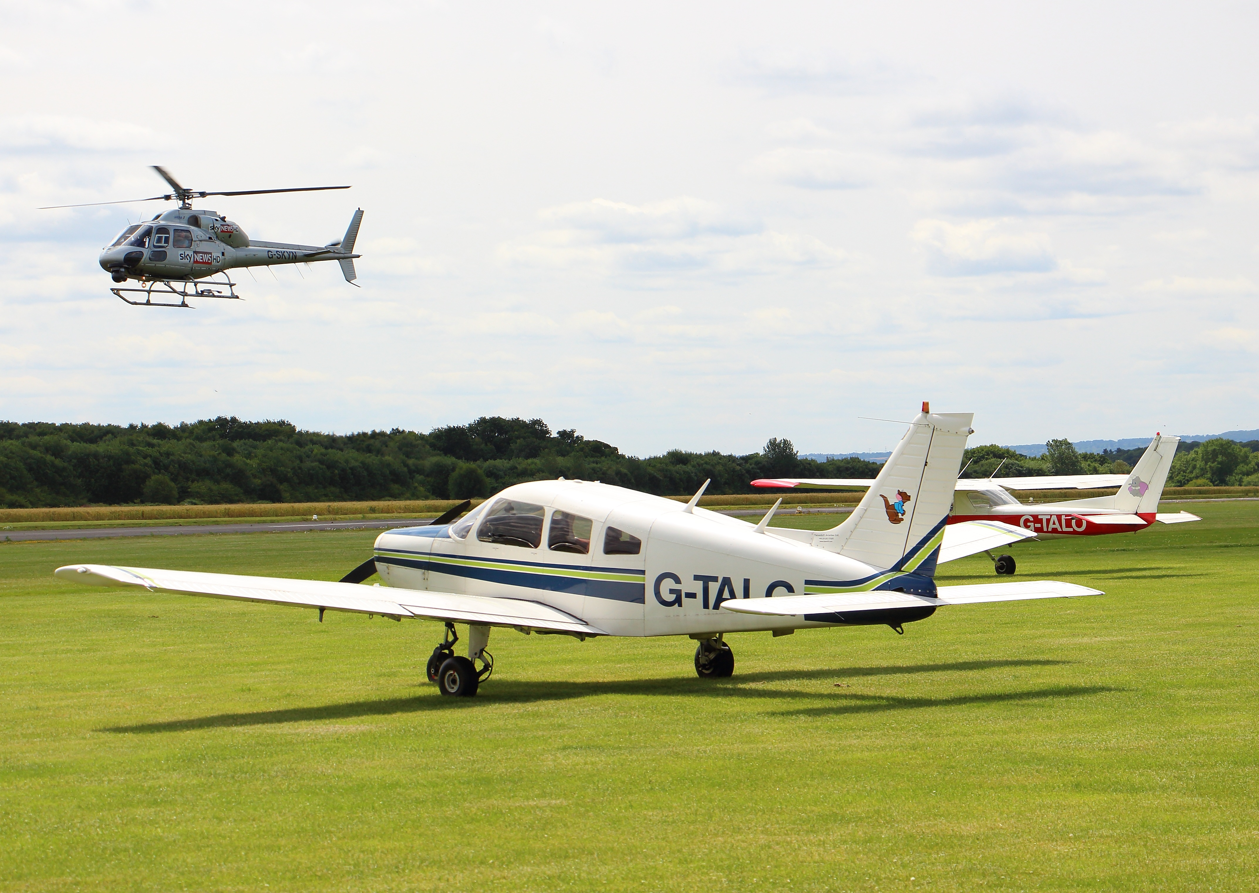 G-SKYN, G-TALO, G-TALC